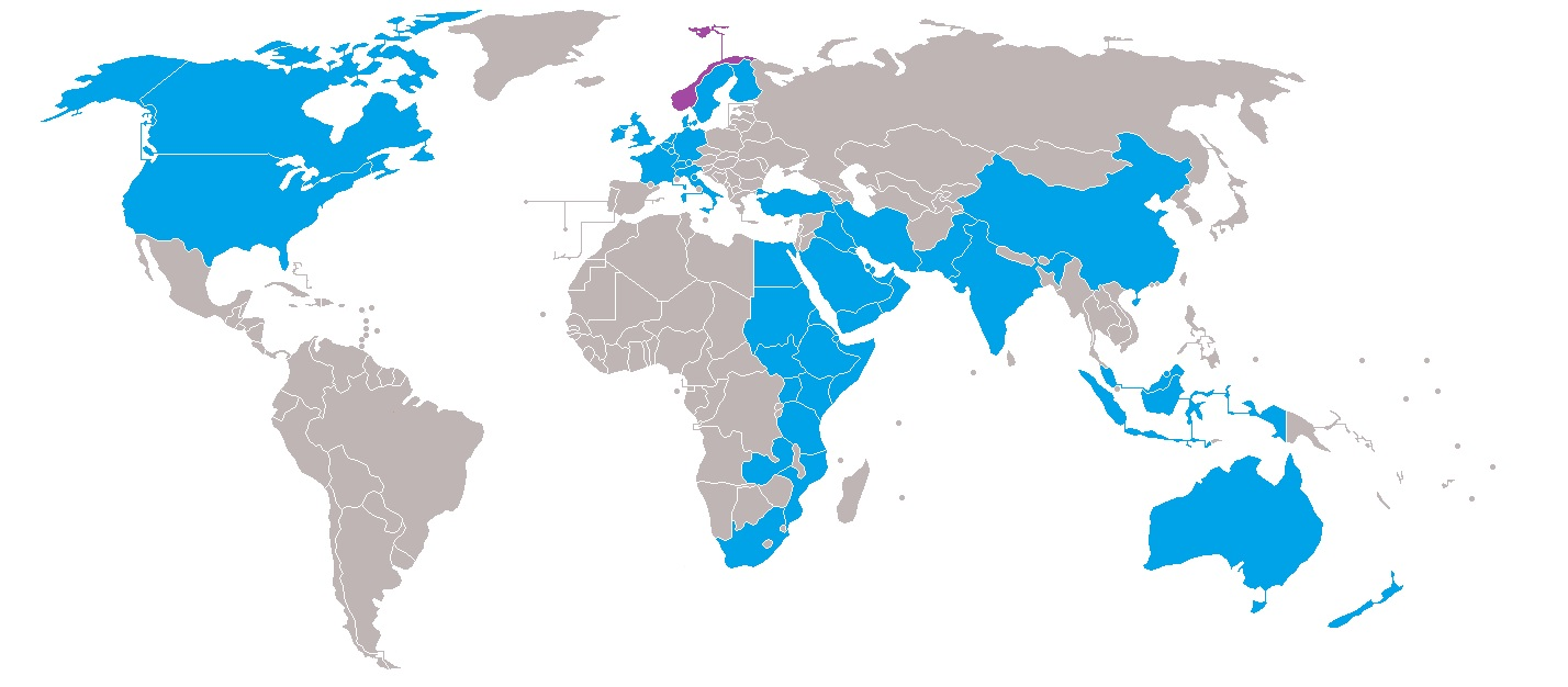 A map of somali diaspora worldwide.